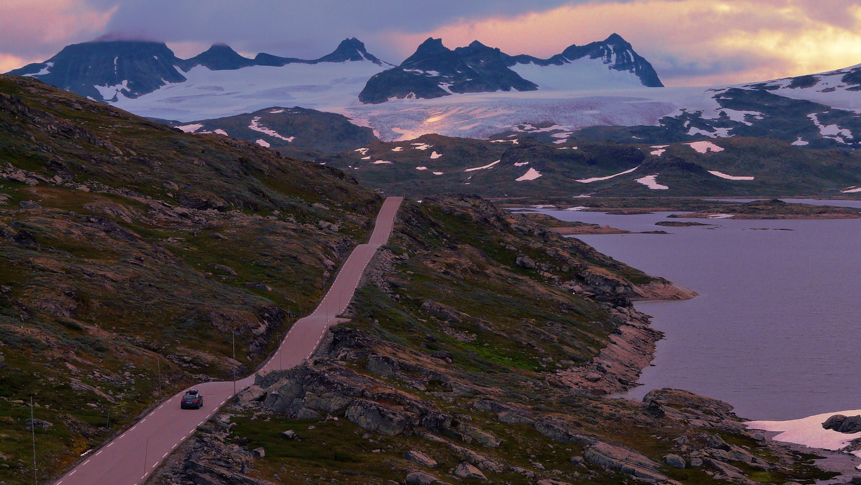 A view to the east from Riksveg 55 at Sognefjellet in 2008 August.